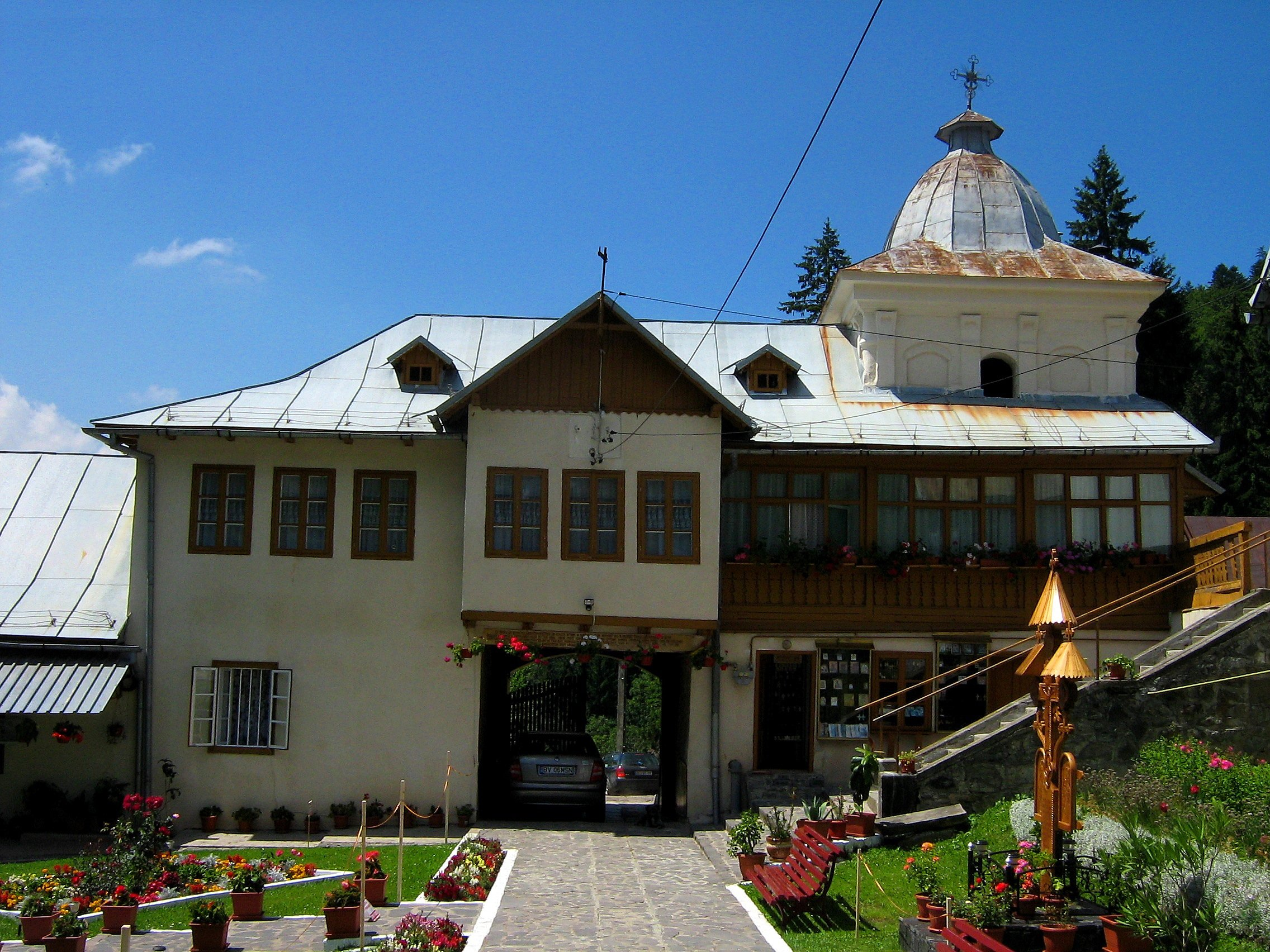 A small, secluded eighteenth century orthodox monastery (now a nunnery), it is the place to go if you are looking for an old church where you can be alone with the icons and the cross - a place for a little solitude and meditation. The mural painting in the charming little church is not so well preserved, but its patina can make you feel like you are in a time long, long ago. The nice nun at the door graciously allowed me to take pictures inside the church. 05